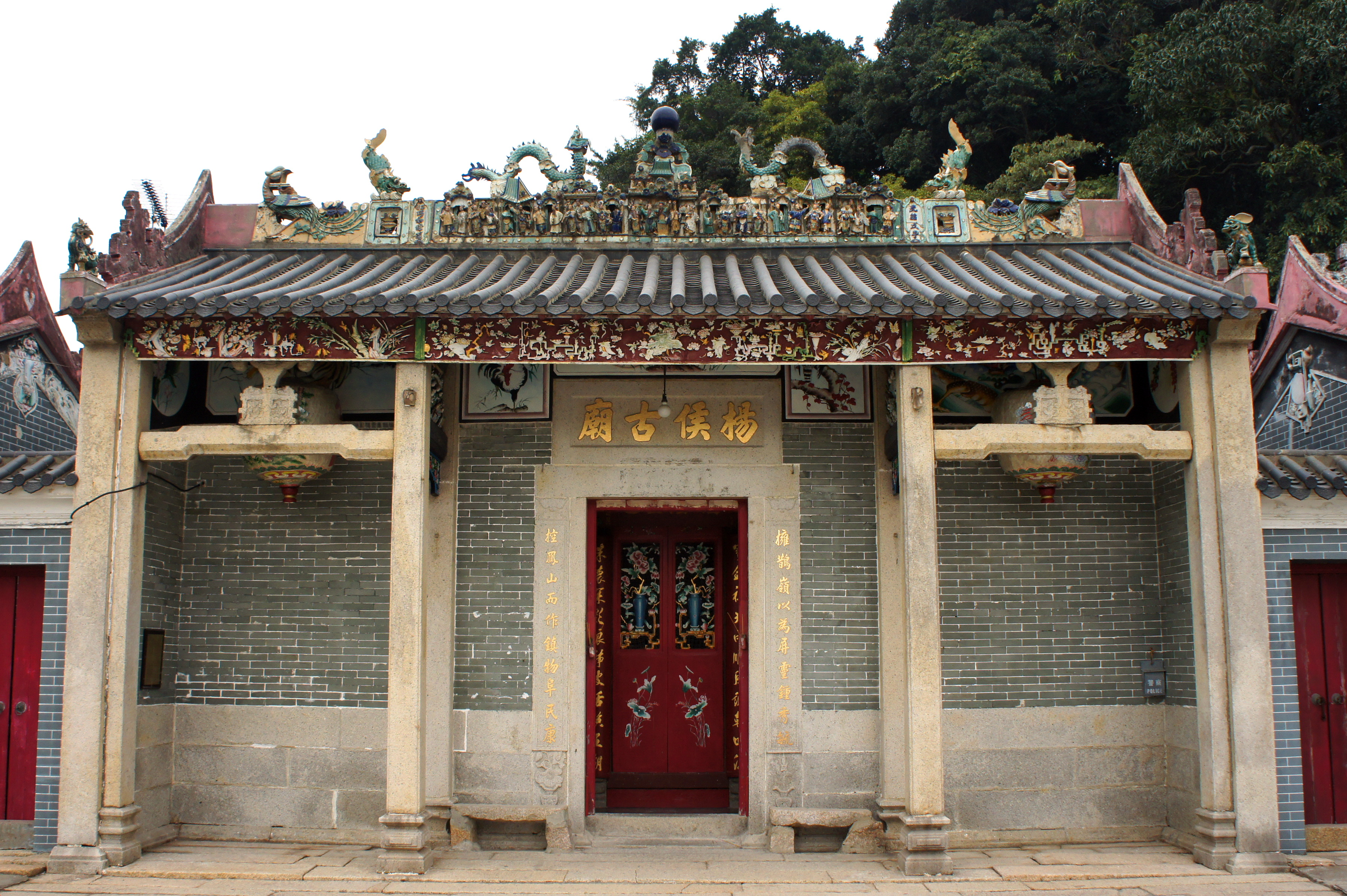 Tai O Yeung Hau Temple, Lantau Island, Hong Kong.